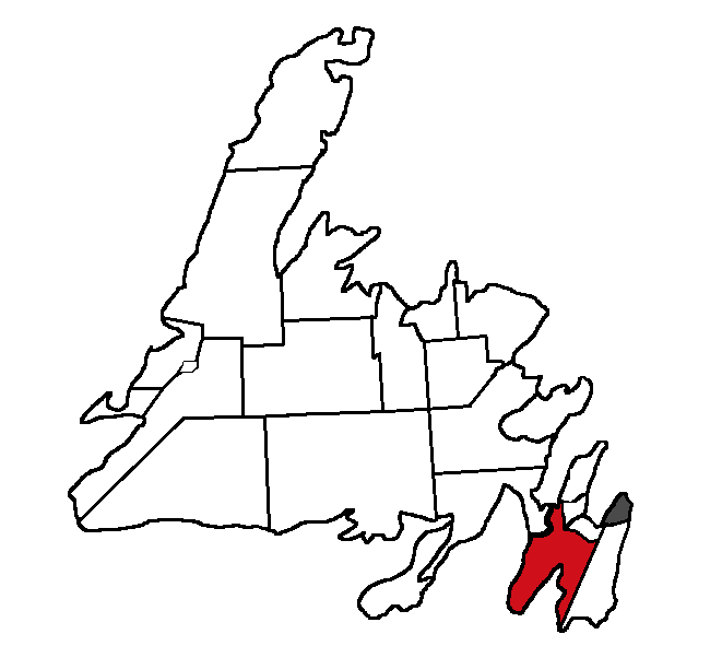 Maps based on images by Earl Warren, from the 2007 elections